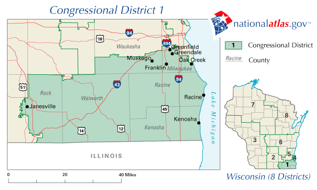 Map of Wisconsin's 1st congressional district. Downloaded from and converted to PNG.